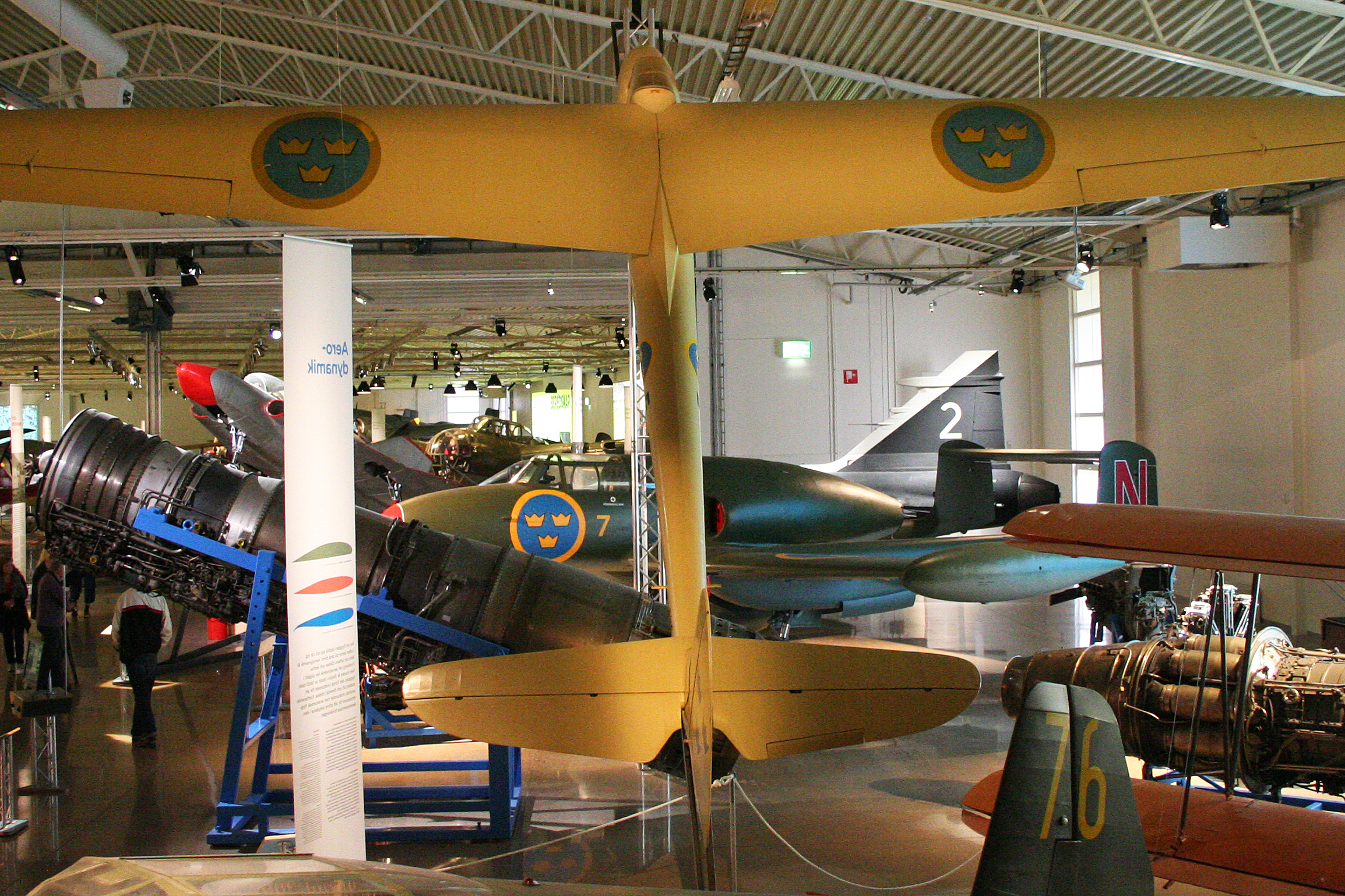 Gliders are often displayed hanging in the rafters. This is an entirely new idea! It certainly saves some ground space! msn 235. Flyvapenmuseum, Malmen, Sweden. 04-06-2012